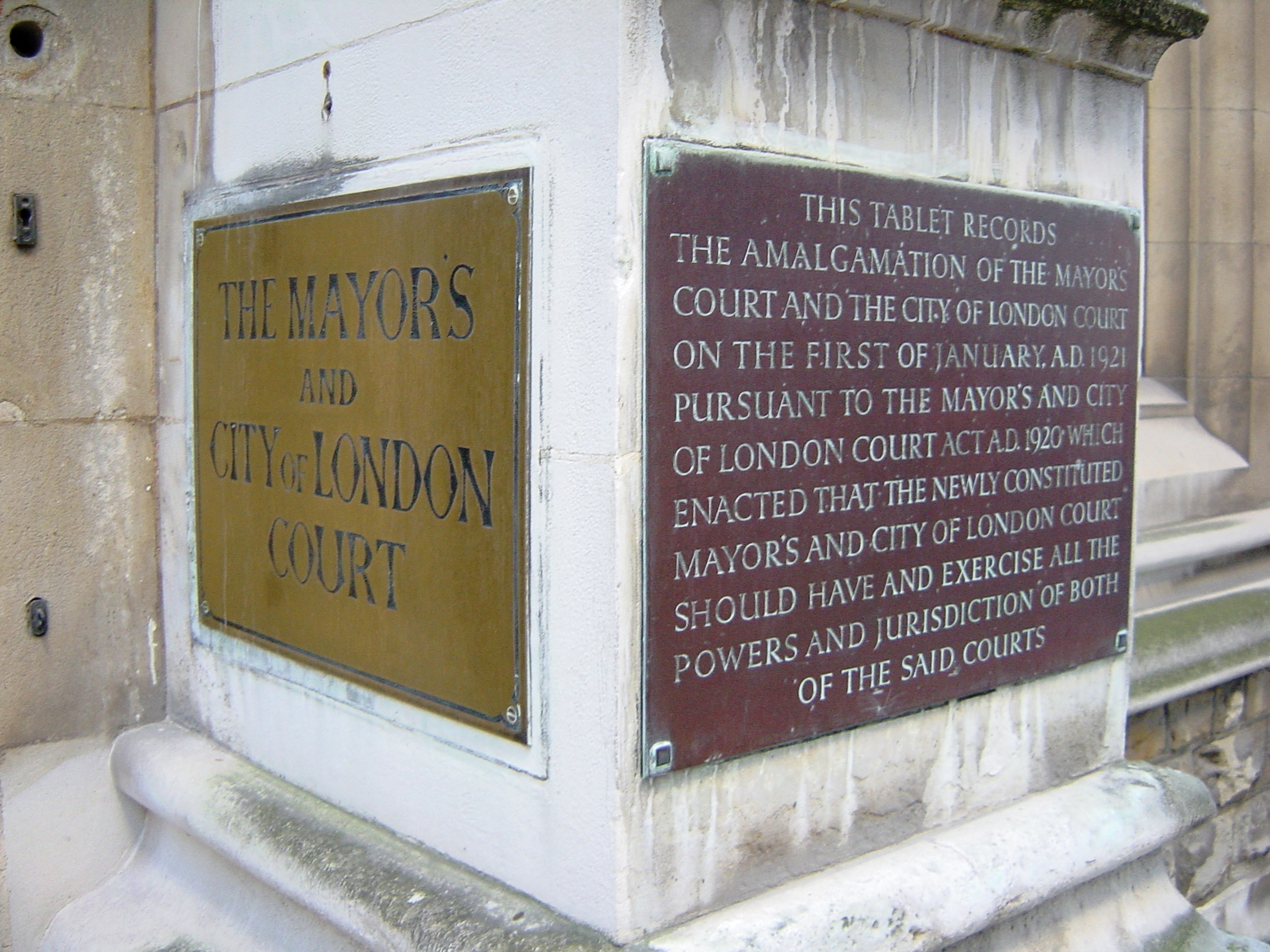 The Mayors and City of London Court, near the Guildhall